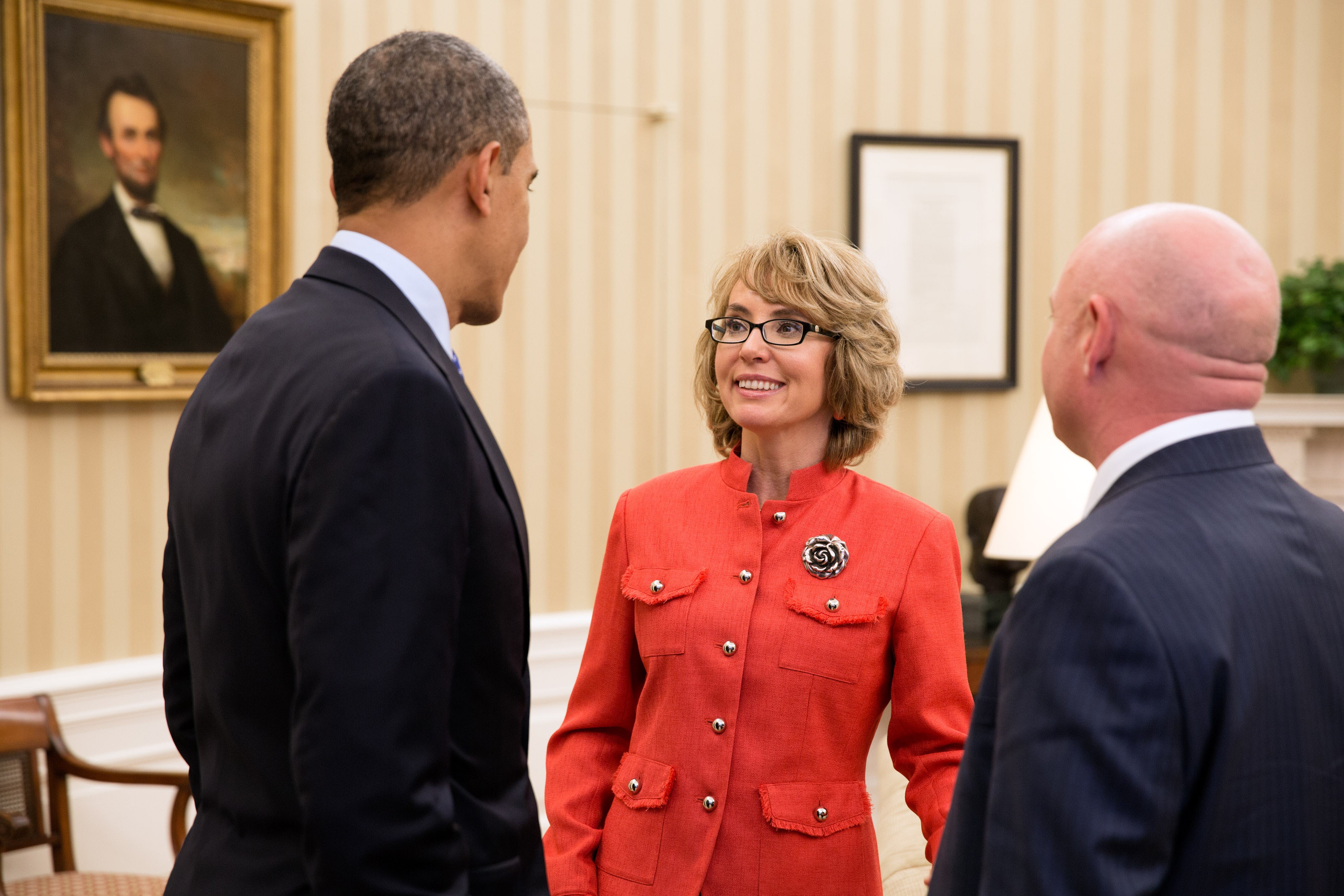 United States President Barack Obama with former Representative Gabrielle “Gabby” Giffords and her husband, former NASA astronaut Mark Kelly, in the Oval Office after they testified at a Senate Judiciary Committee hearing on gun violence on 30 January 2013.